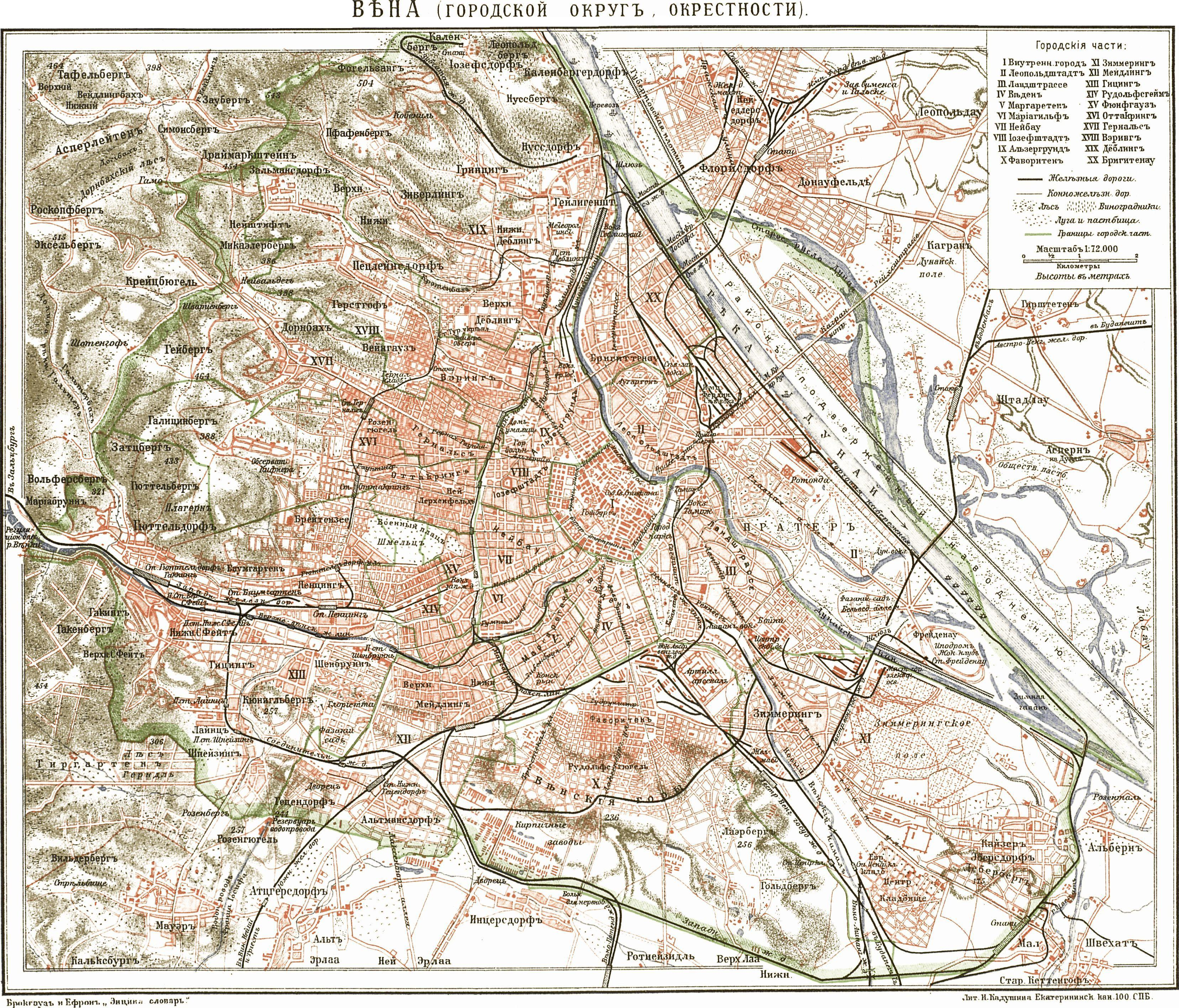 Illustration from Brockhaus and Efron Encyclopedic Dictionary (1890—1907)